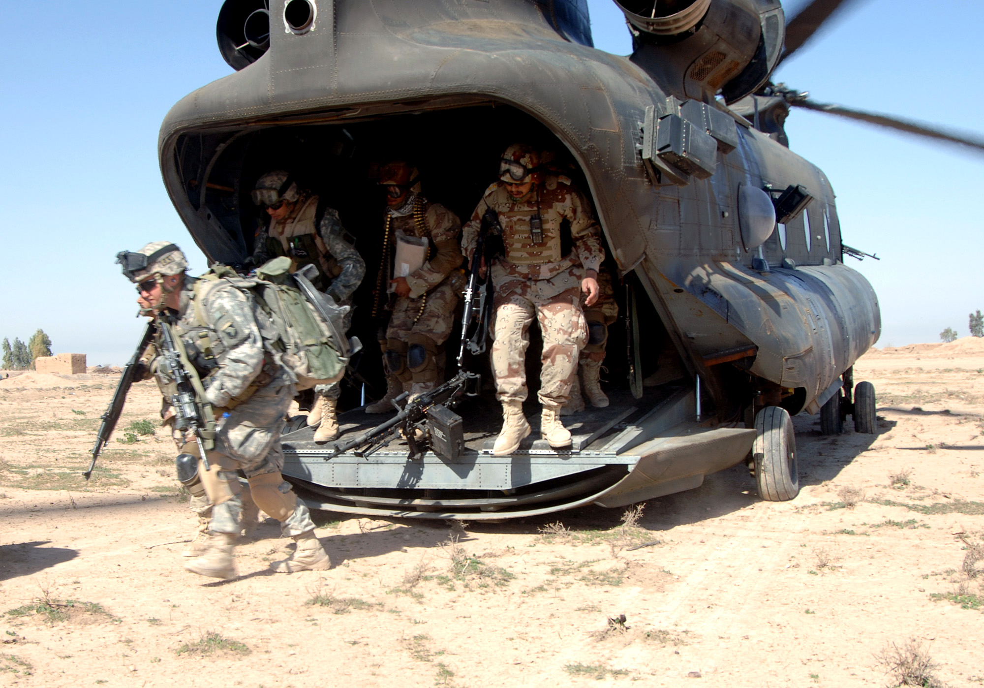 U.S. Army soldiers of the 101st Airborne Division’s Company C, 3rd Battalion, 187th Infantry Regiment, exit an Army CH-47 Chinook helicopter at Brassfield-Mora, Iraq, March 16, 2006, in support of Operation Swarmer.